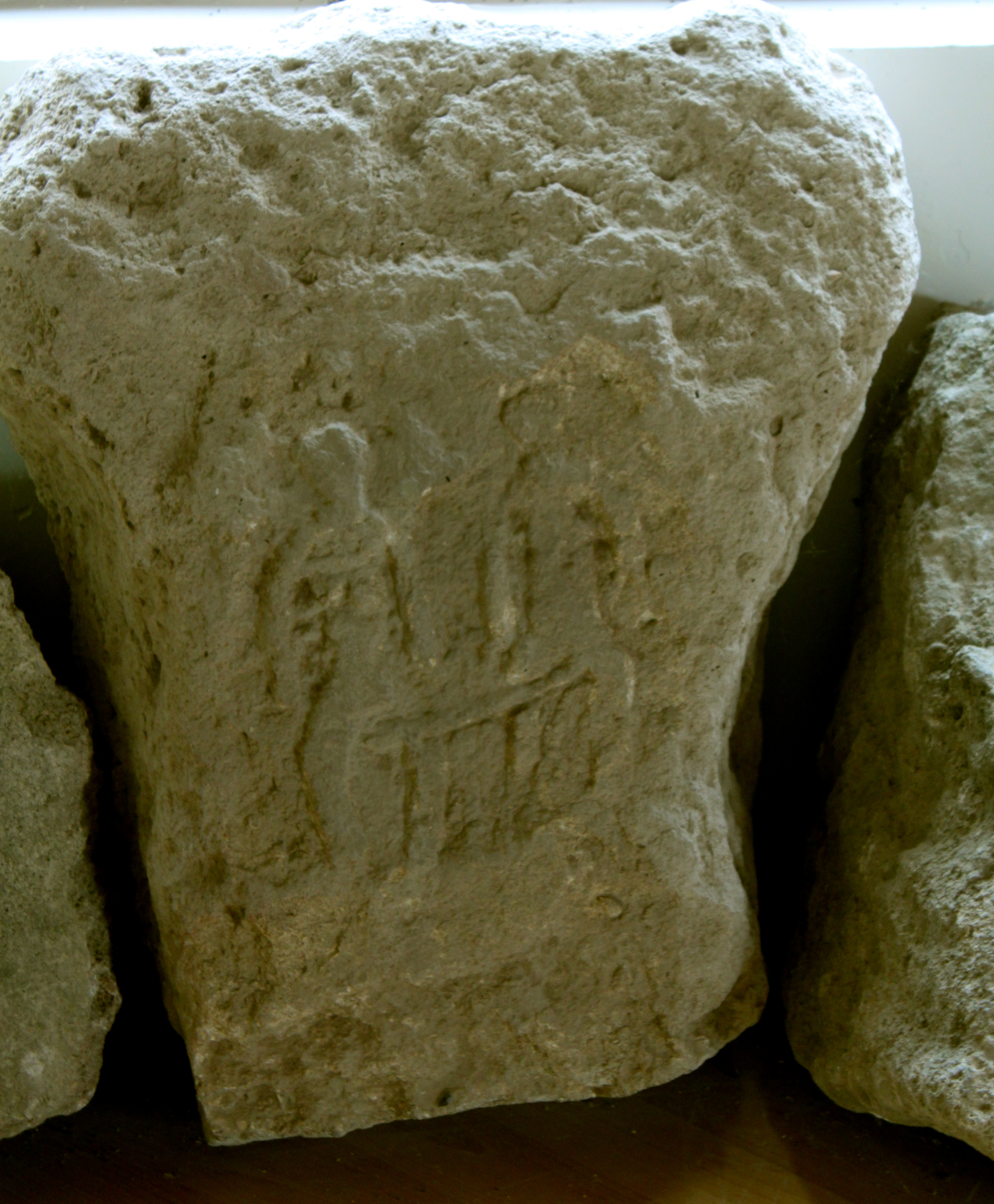 Meseolitic era human fiqures, Gobustan